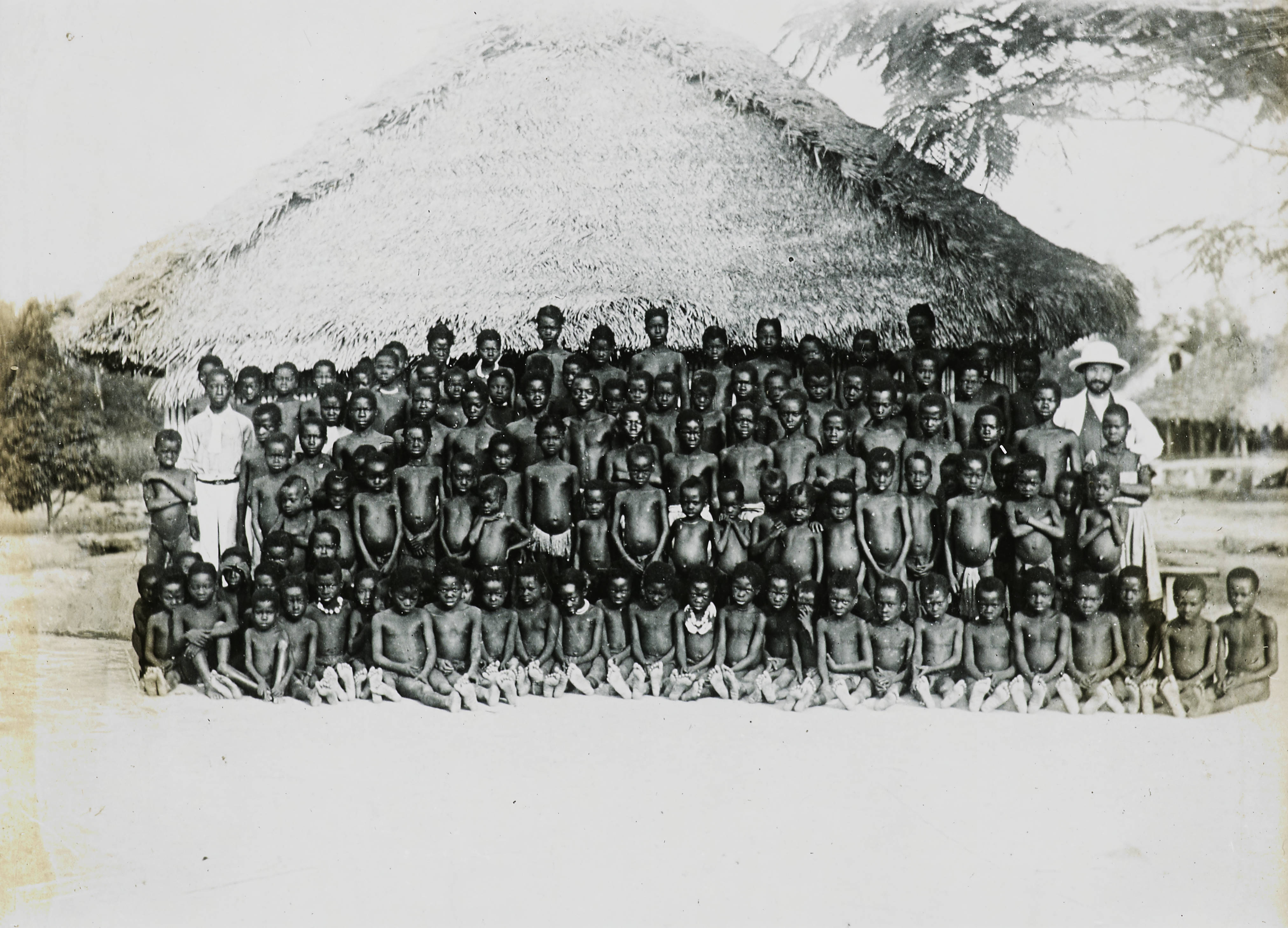 Congo Balolo Mission — missionary and village boys, Congo (present day Democratic Republic of the Congo), ca. 1900-1910 Black and white lantern slide showing a Congo Balolo Mission missionary with a group of village boys. The boys are bare chested, and wear cloths around their waists. A Congolese man in trousers and shirt can be seen at one side of the group, who could be a native evangelist. This slide comes from a collection generated by missionaries working for the Congo Balolo Mission, a mission begun in 1889 under the supervision of the East London Training Institute for Home and Foreign Missions that developed into the interdenominational evangelical mission Regions Beyond Missionary Union after 1900. Photographer: Unknown Filename: IMP-CSCNWW33-OS11-63.tif Coverage date: 1900/1915 Subject (unesco): Missionary work; Boys Part of collection: International Mission Photography Archive, ca.1860-ca.1960 Part of subcollection: Photographs from the Centre for the Study of World Christianity, University of Edinburgh, U.K., ca.1900-ca.1940s Subject (corporate name): Congo Balolo Mission Repository name: Centre for the Study of World Christianity Archival file: Volume2/IMP-CSCNWW33-OS11-63.tif Repository address: The University of Edinburgh School of Divinity, New College, Mound Place, Edinburgh EH1 2LX, United Kingdom Geographic subject (country): Congo Format (aacr2): lantern slides 8.2 x 8.2cm Geographic subject (continent): Africa Rights: Contact the repository for details. Part of series: Regions Beyond Missionary Union. Congo People and Places (CSCNWW33/OS11) Repository Date created: 1900/1915 Publisher (of the digital version): University of Southern California. Libraries Subject (aat genre): group portraits Format (aat): lantern slides; photographs Access conditions: Geographic subject: populated places File: CSCNWW33/OS11/63 Subject (lcsh): Villages; Missionaries